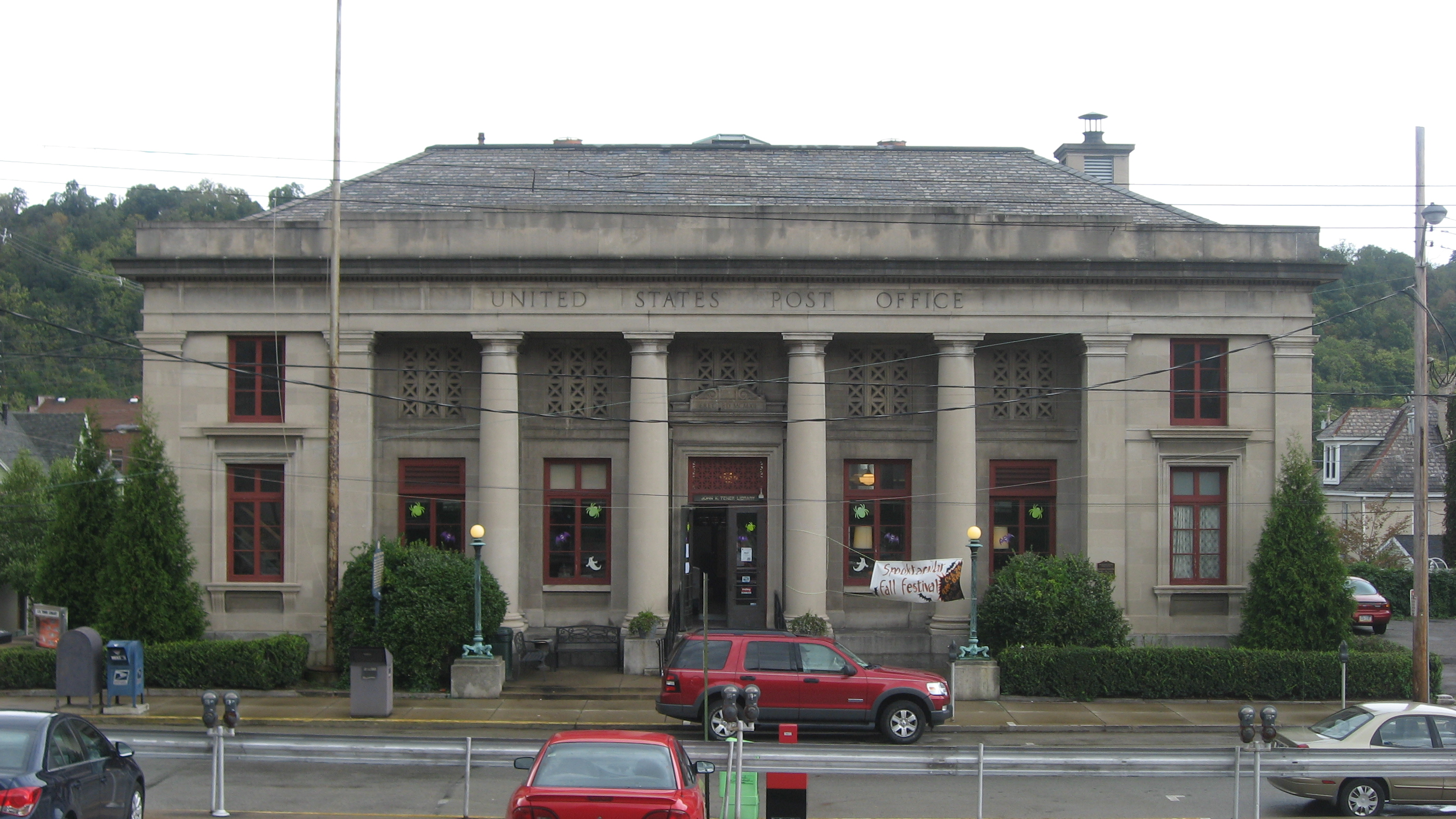 Front of the former post office in Charleroi, Pennsylvania, United States, located at 638 Fallowfield Avenue (Pennsylvania Route 88). Built in 1909 and since converted into a library, it is listed on the National Register of Historic Places, and it is part of a Register-listed historic district, the Charleroi Historic District.